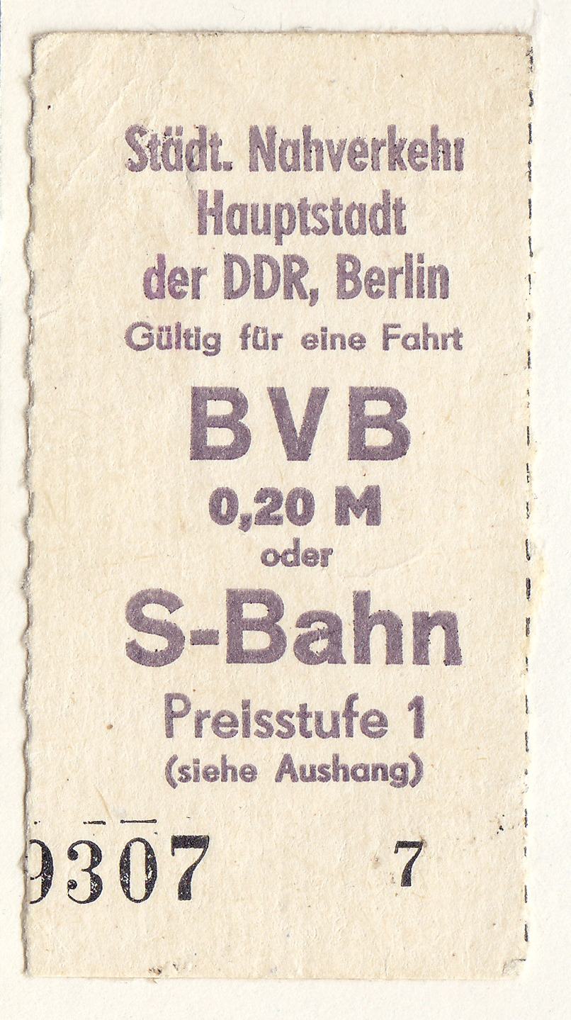 Ticket BVB/S-Bahn Berlin (DDR) ca. 1985